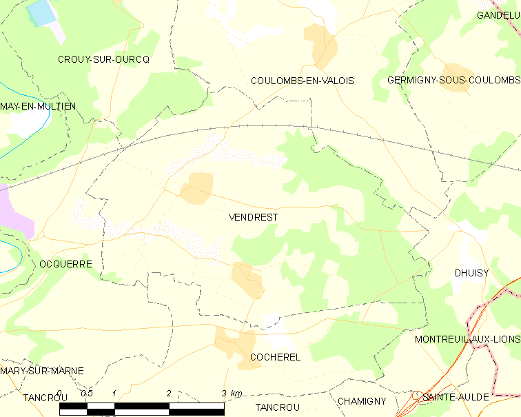 Map of French municipality Vendrest